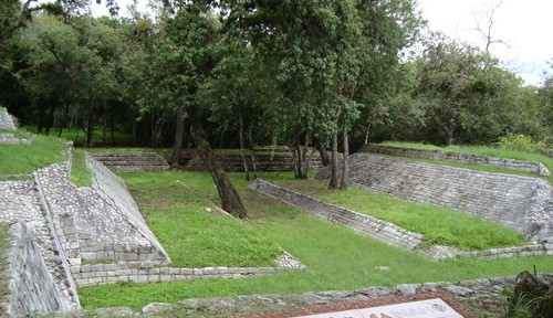 Tenam Puente Juego de pelota3